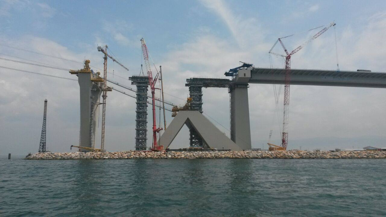 Izmit Bay Bridge, in June 2015